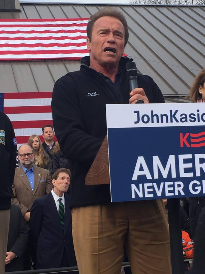 Arnold Schwarzenegger speaking at John Kasich's presidential rally at the Franklin Park Conservatory in Columbus, Ohio.